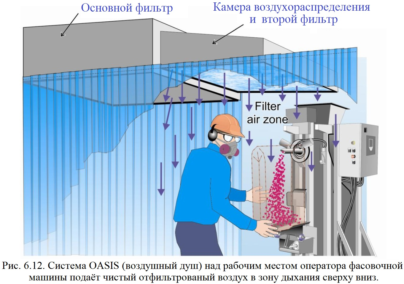 Figure 6.12. OASIS positioned over bag operator to deliver clean filtered air down over work area